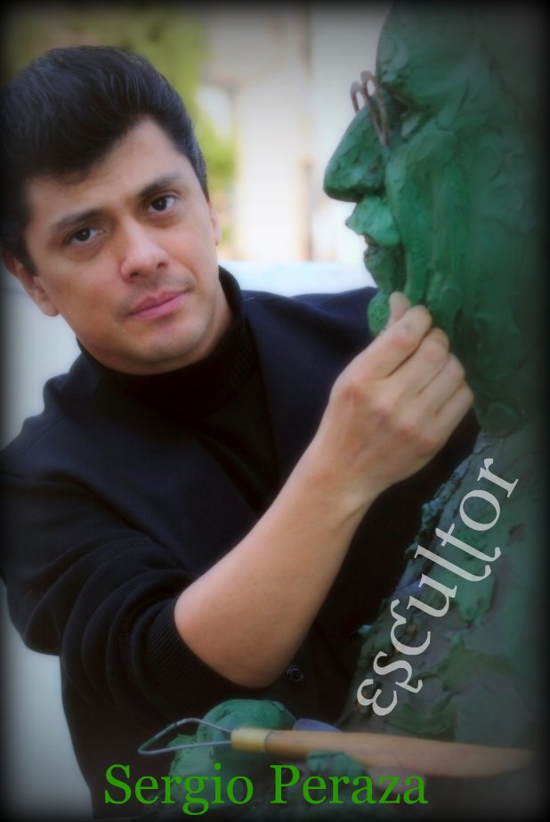 this is the portait of the sculptor